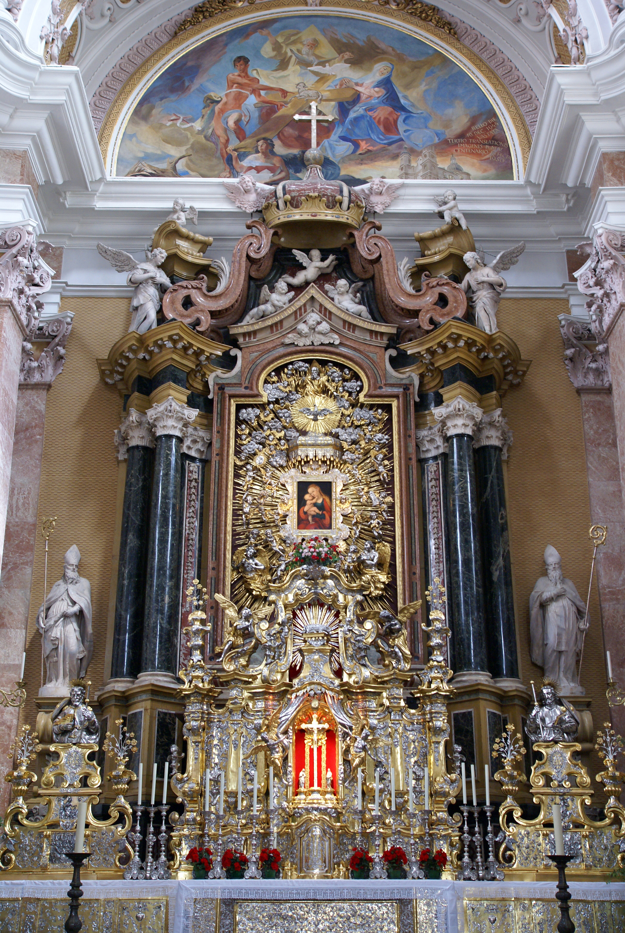 Cathedral of St. James in Innsbruck, Austria